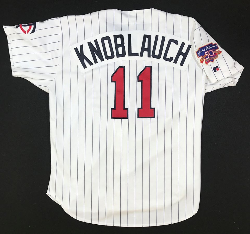 1997 Minnesota Twins #11 Chuck Knoblauch home jersey lettered and photographed by William F. Henderson who may be contacted through his website thedream.shop.